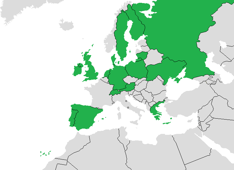 Self made Eurovision Dance Contest 2007 Map.